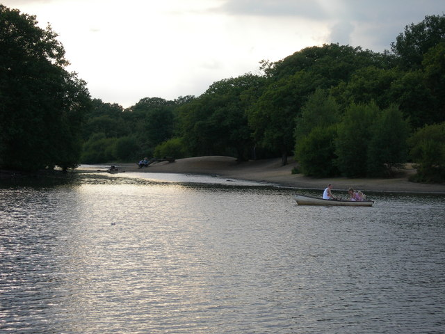 Hollow Pond, Epping Forest.